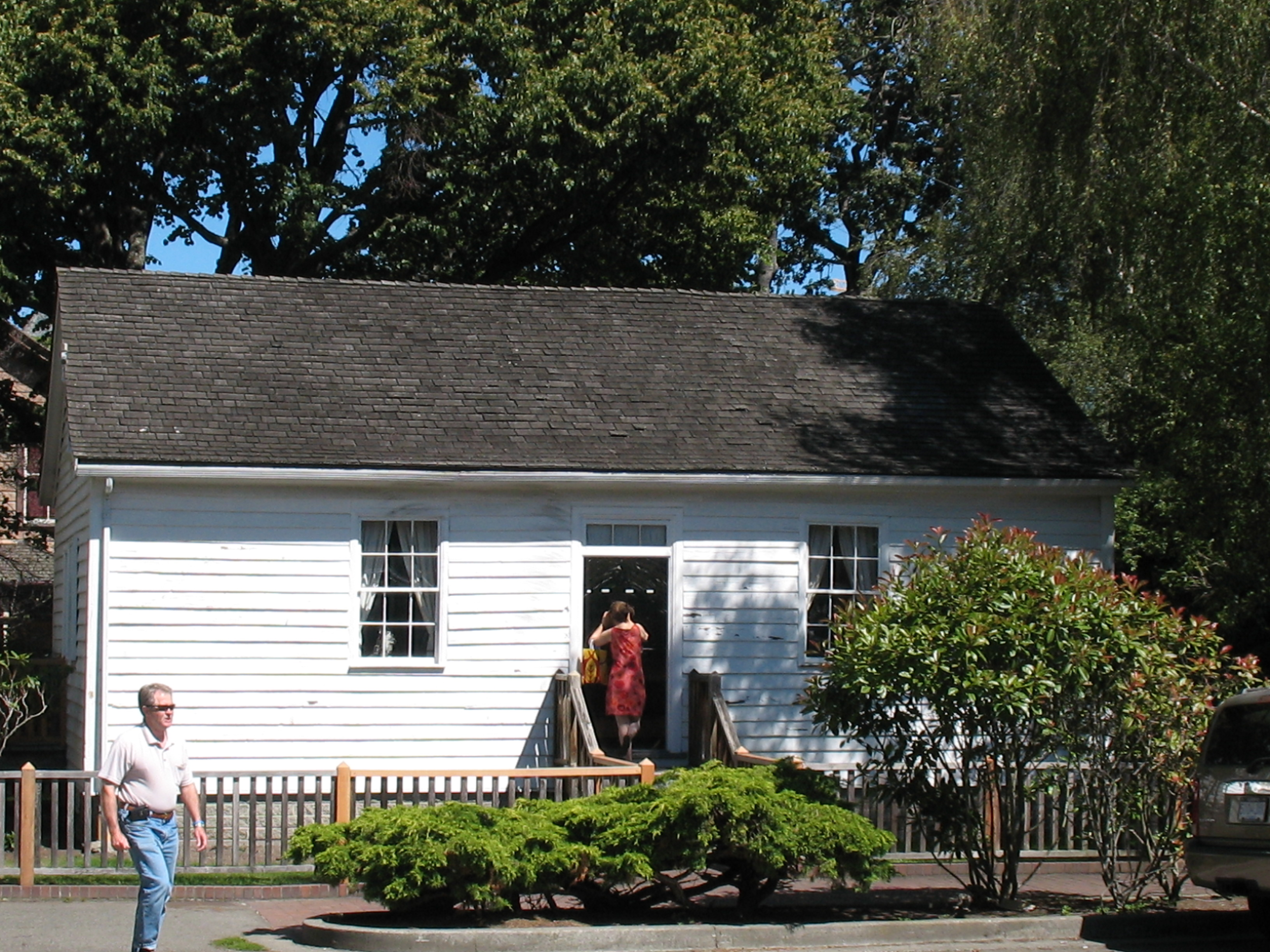 St Ann's schoolhouse in Victoria, BC